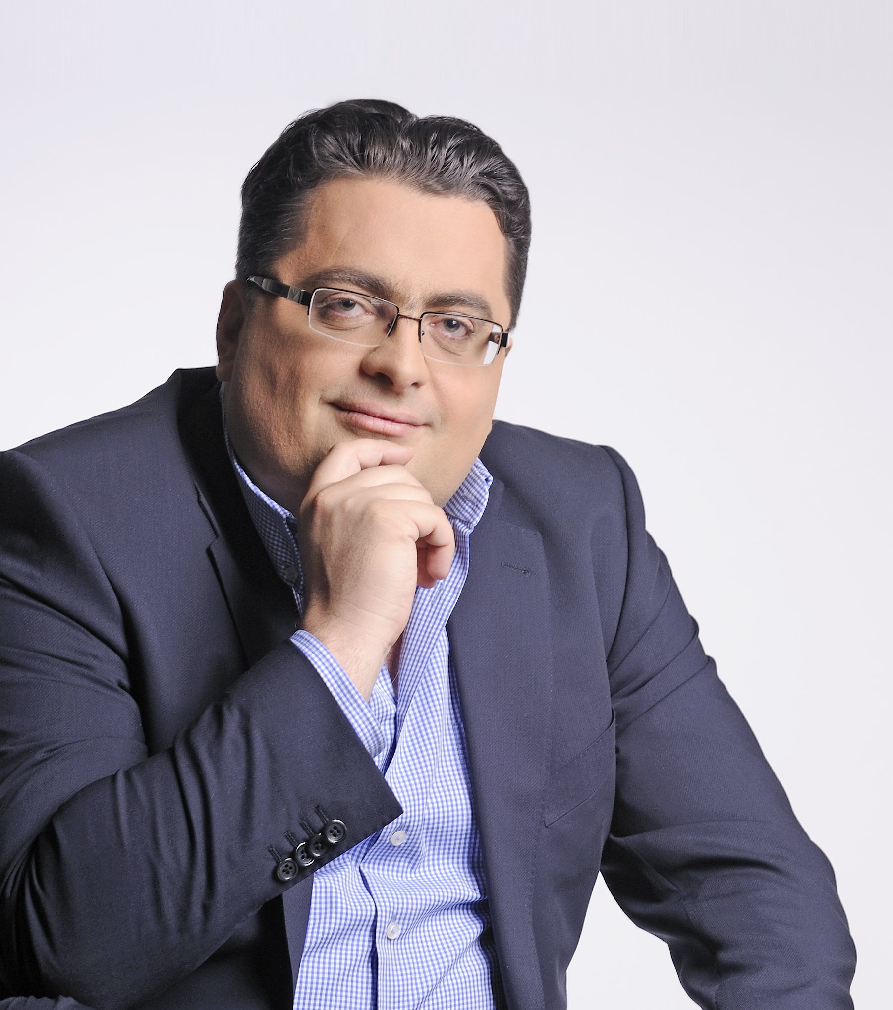 Personal photo of Dr. Kenan Crnkić